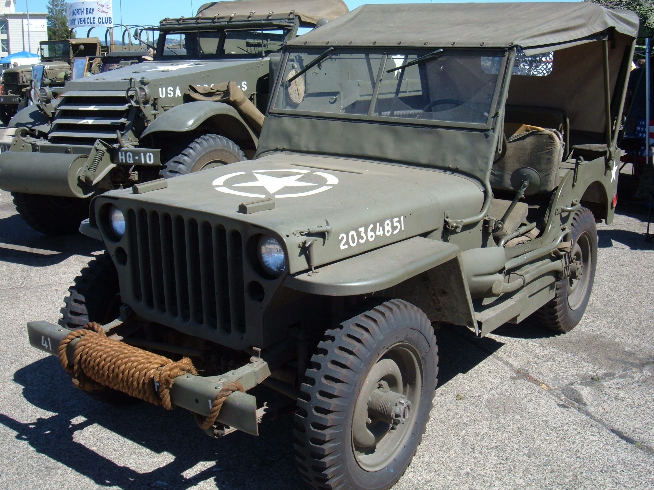 A covered Willys MB/Ford GPW at the Wings over Wine Country 2007 air show at the Charles M. Schulz - Sonoma County Airport in Sonoma County, California.